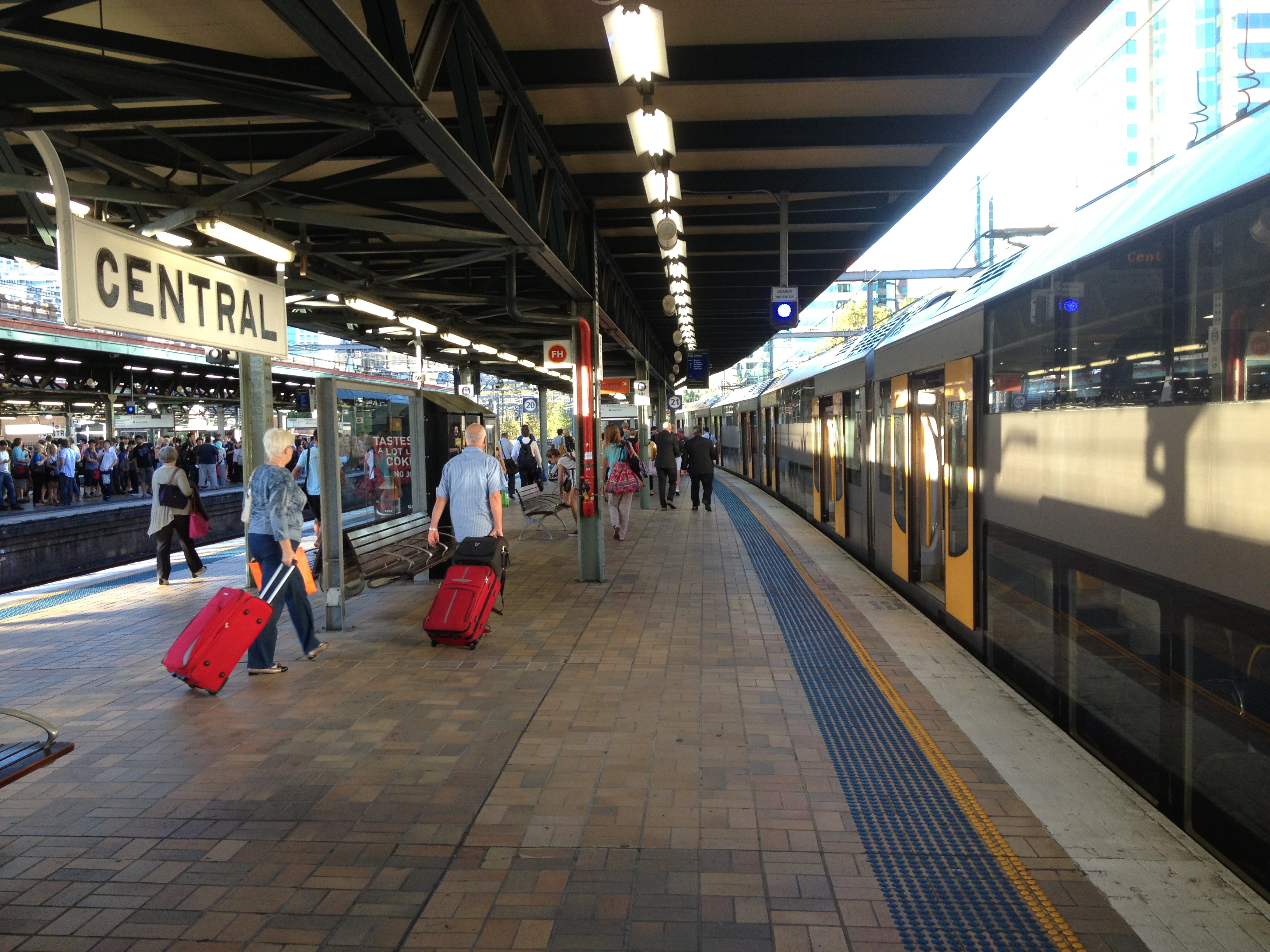 Platform 20 and 21 at Central Station in Sydney.